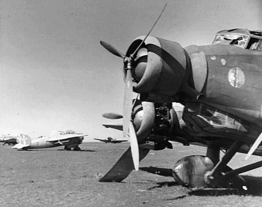 Abandoned Italian aircraft on an Benina airfield, Benghazi (Libya), in 1941. In the foreground is an Savoia-Marchetti SM.81 Pipistrello transport plane, a Breda Ba.88 Lince reconnaissance plane is visible in the background.